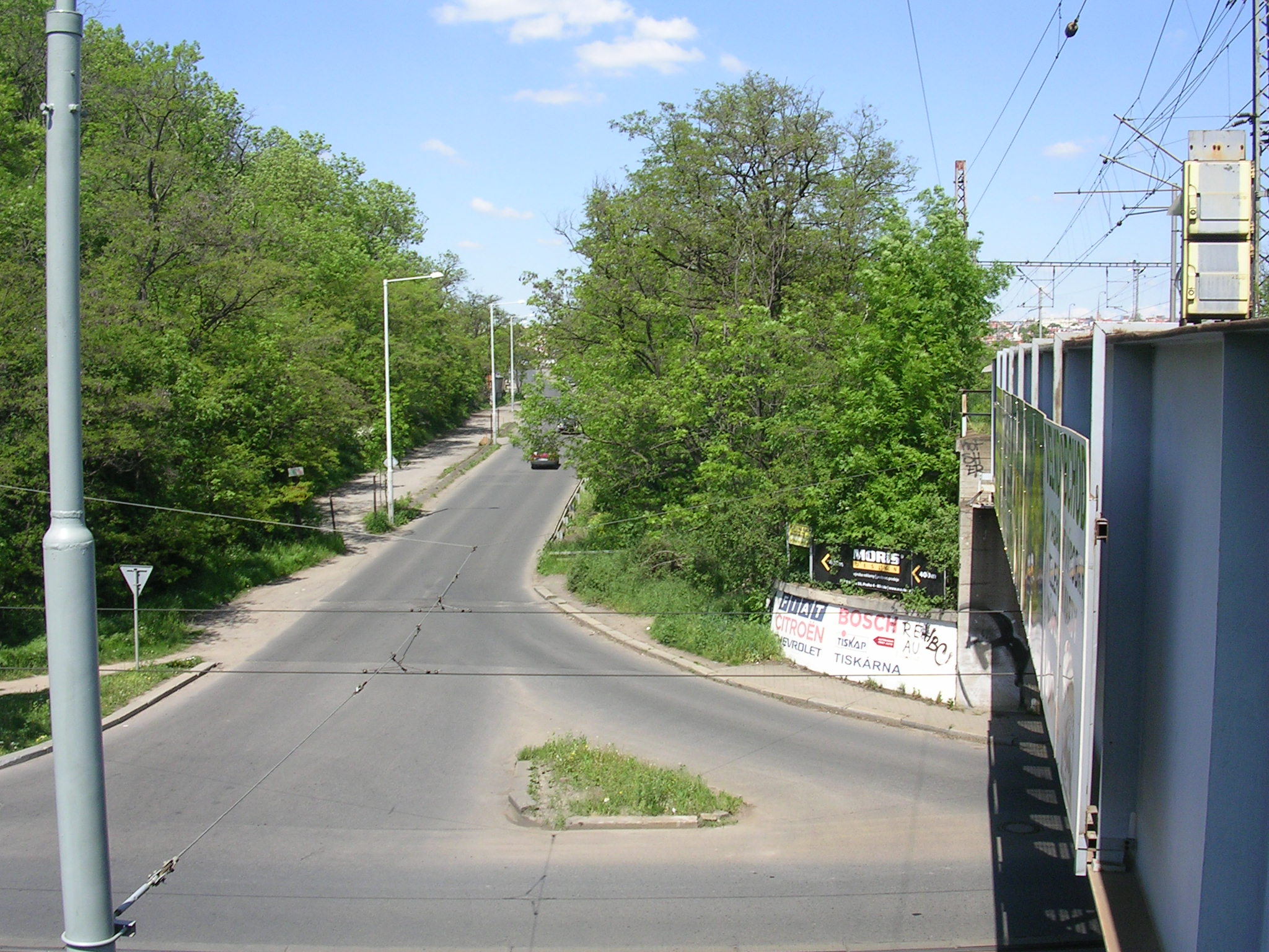 Michle, Prague, the Czech Republic. Nad Vinným potokem Street from railway bridge over U Plynárny Street.